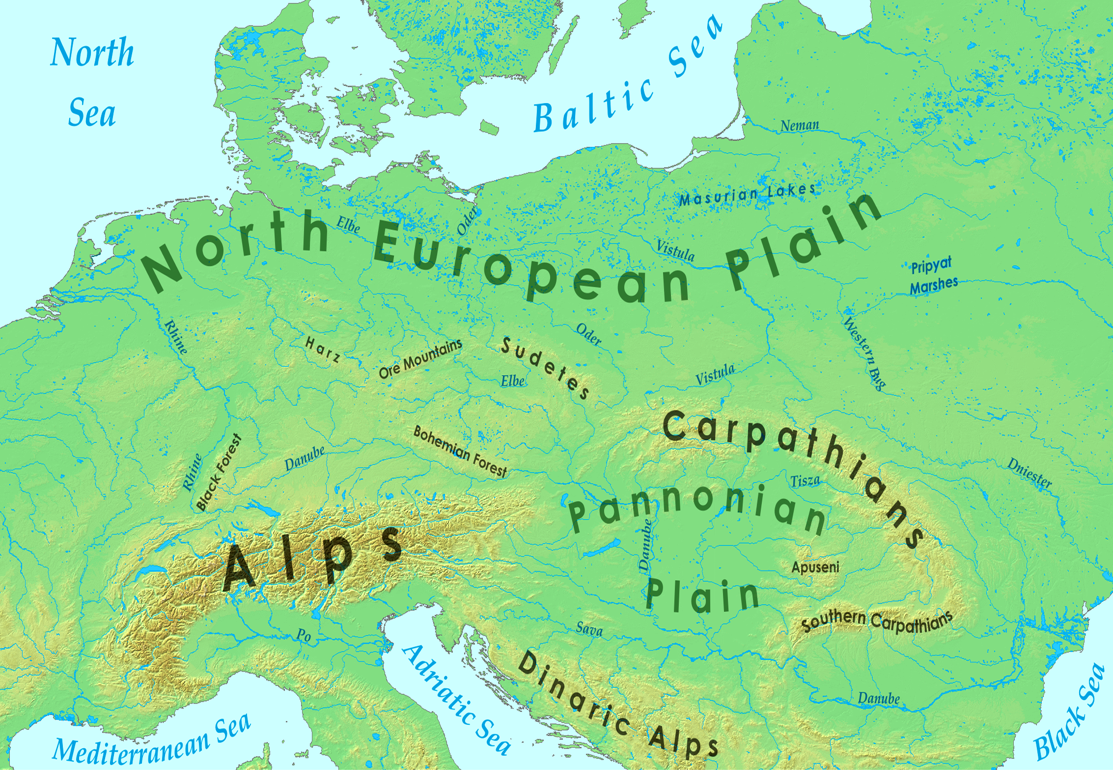 Major geographic features of Central Europe